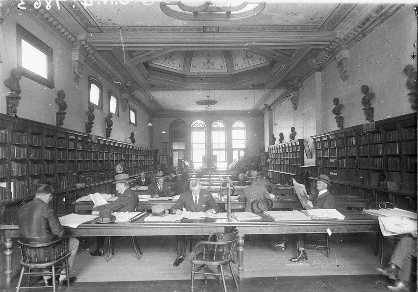 Reading Room of a city library, the Mechanics Institute and School of Arts, 275 Pitt Street